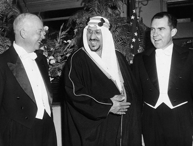 President Eisenhower (L) and Vice President Richard Nixon (R) are shown with their host, King Saud of Saudi Arabia (C), as they attended the regally-arranged dinner given by the Arabian monarch at the Mayflower Hotel in Washington D.C. in 1957. Original Caption 2/1/1957-Washington, DC- President Eisenhower (L) and Vice President Richard Nixon are shown with their host, King Saud of Saudi Arabia, as they attended the regally-arranged dinner given by the Arabian monarch at the Mayflower Hotel. King Saud was the guest of honor at a dinner given by Secretary of State John Foster Dulles the previous night and at one given by President Eisenhower Thursday night.